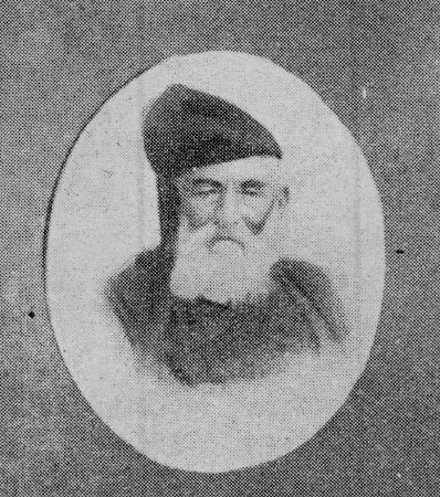 Rousos Koundouros (1823-1907): Greek politician